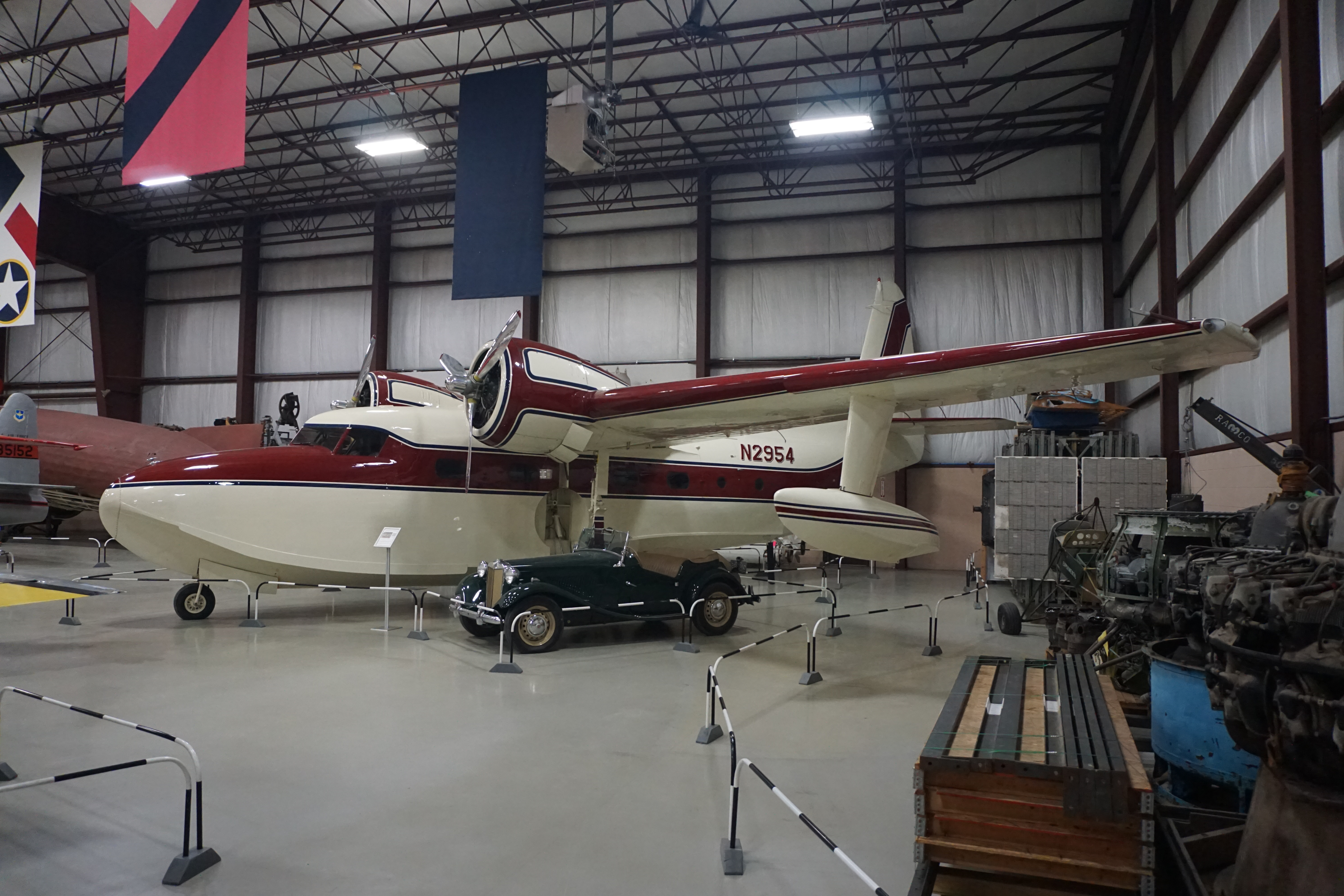 A Grumman G-73 Mallard on display at the Air Zoo at Kalamazoo/Battle Creek International Airport in Portage, Michigan (United States).